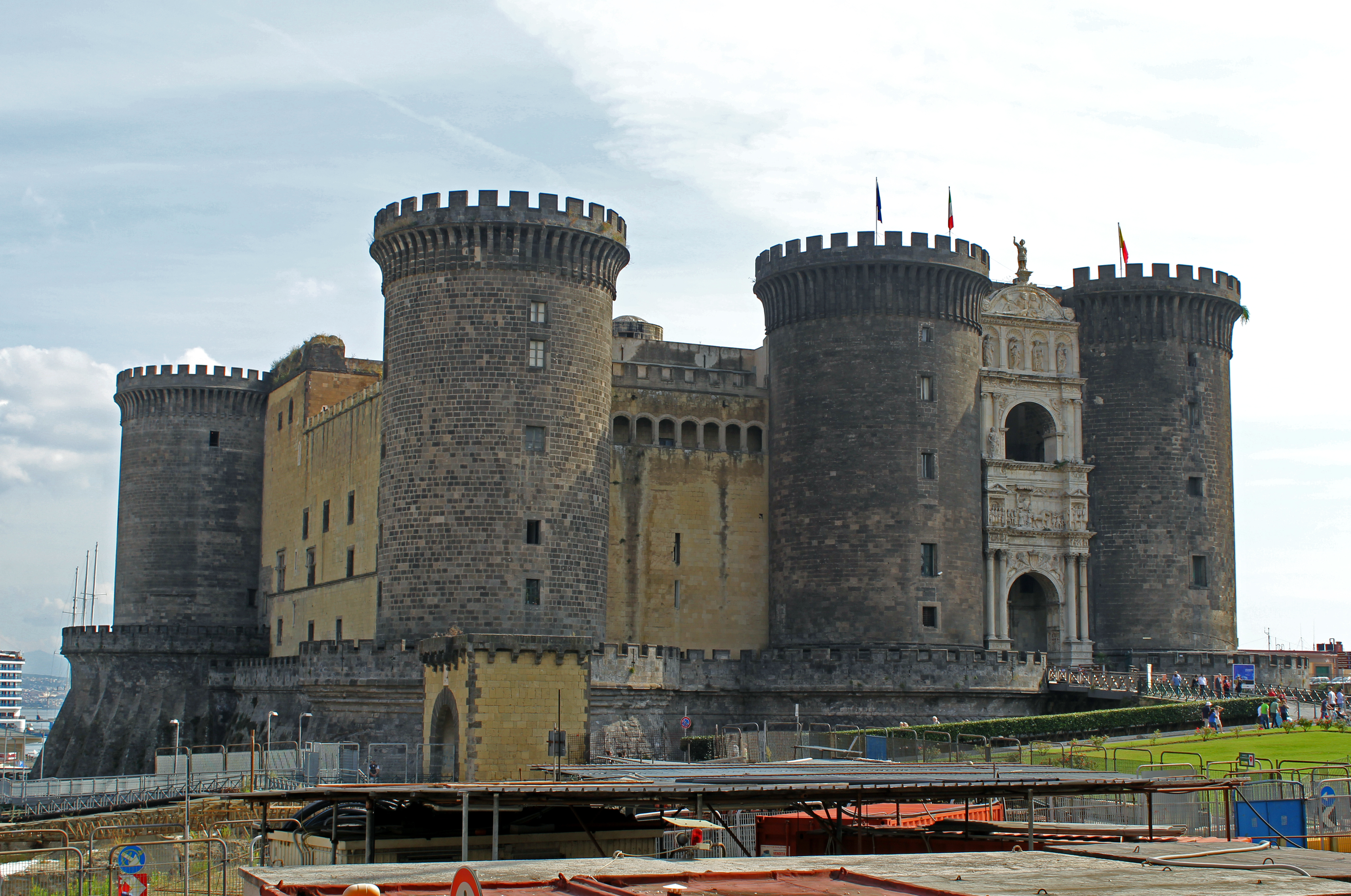 Castel Nuovo (29) This file was generated using equipment from Wikimedia UK, a Wikimedia local chapter.